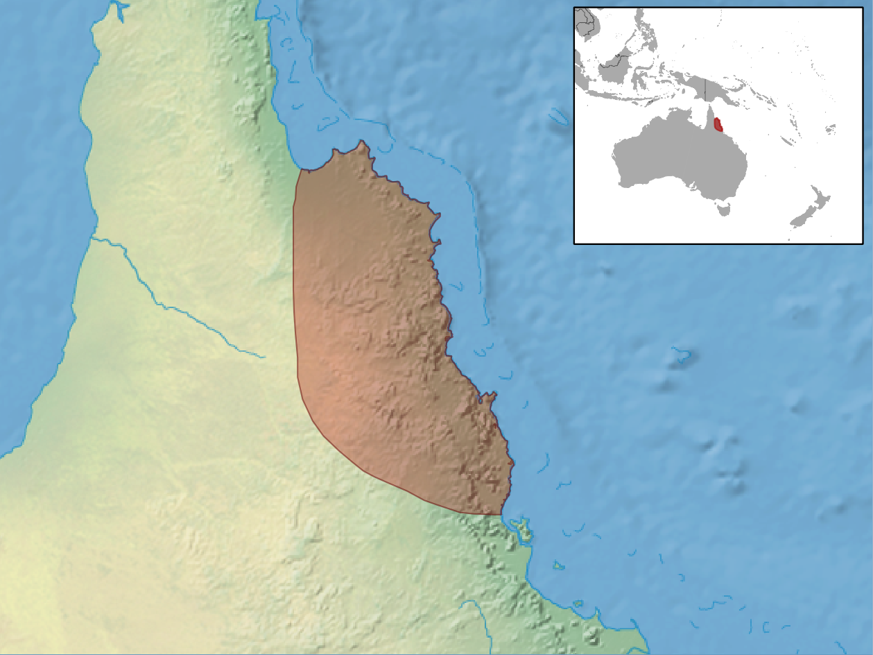 geographic distribution of Anomalopus gowi